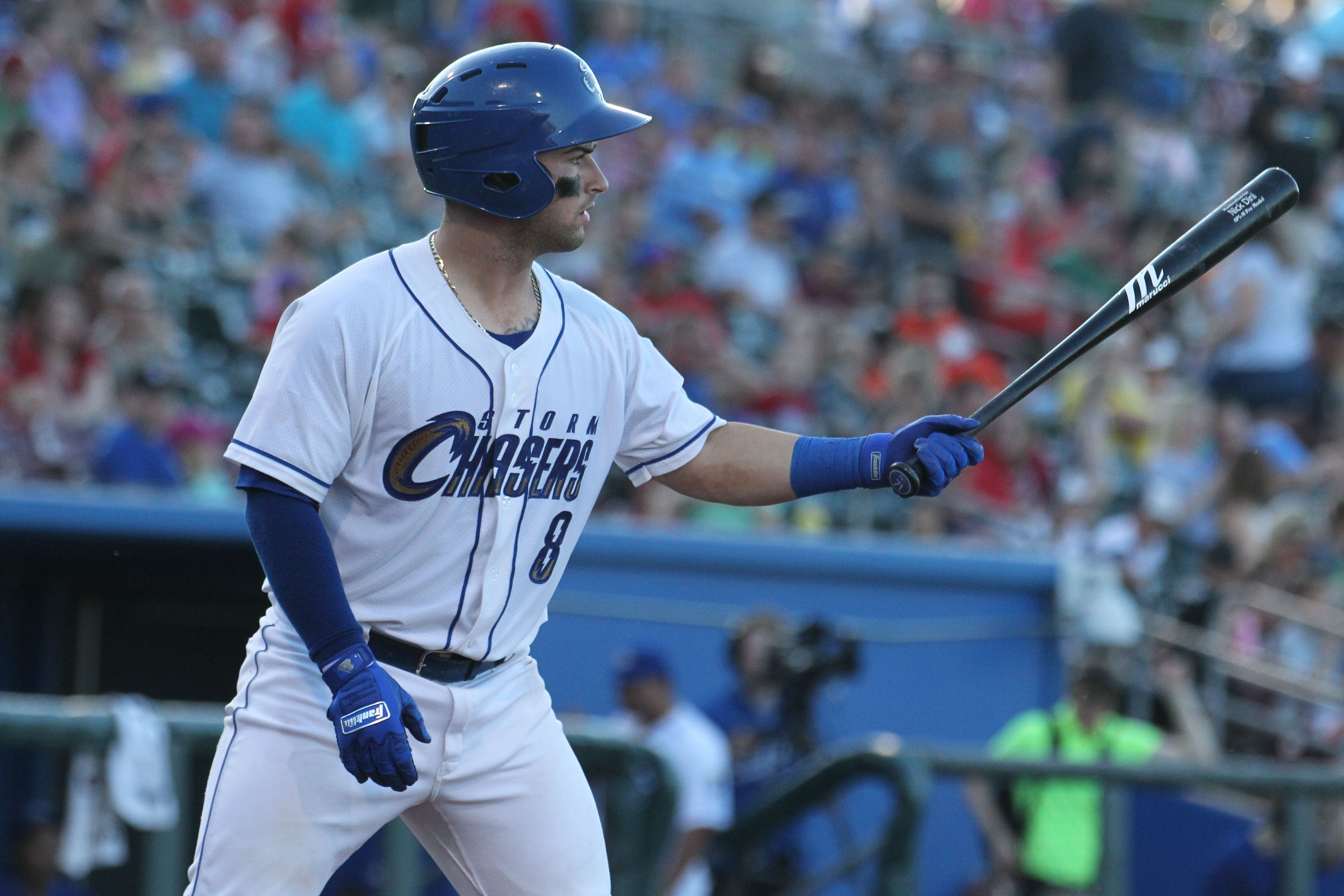 Nick Dini at bat for the Omaha Storm Chasers